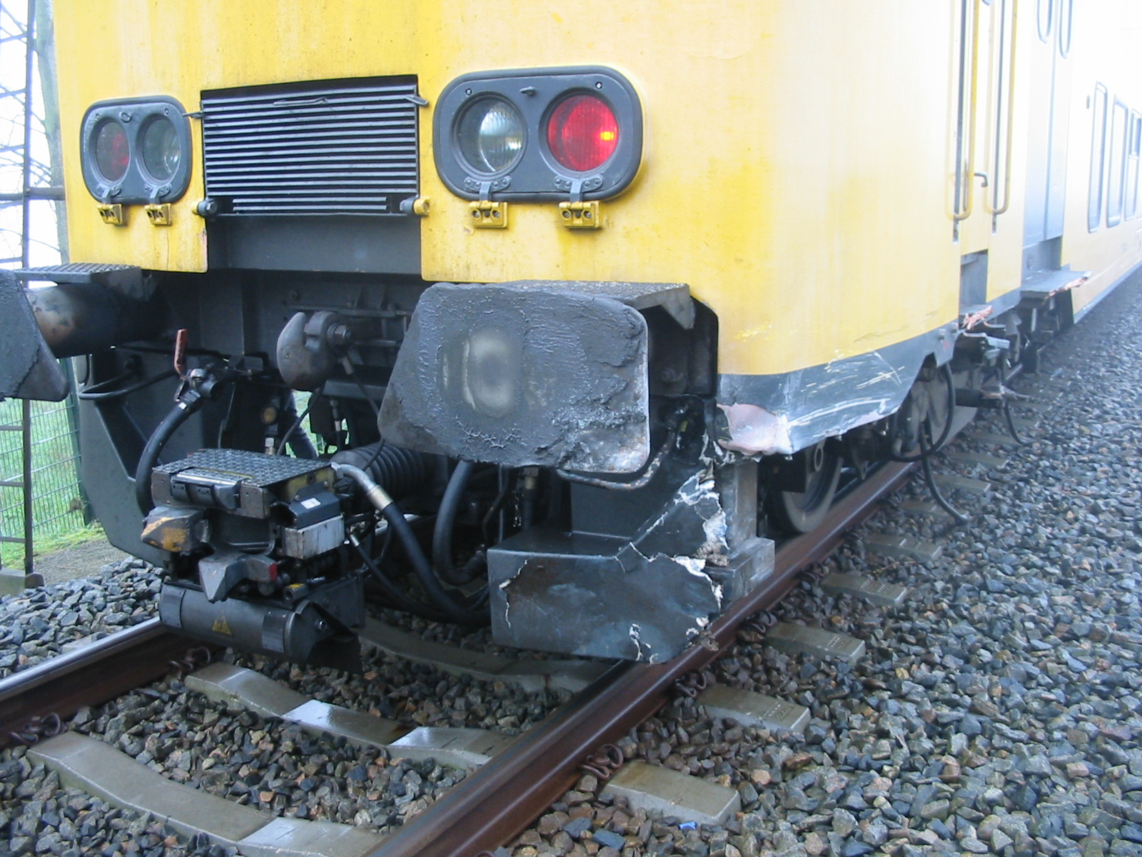 Damage to train near Gouda, The Netherlands. Due to accident with car at the railway crossing Schade aan een trein op 4 november 2008. Trein richting Gouda vanuit Zoetermeer Oost. De schade werd veroorzaakt door een auto op de overweg. De trein in de andere richting die ongeveer gelijktijdig langskwam had meer schade en was ontspoord. Er waren geen gewonden. De chauffeur en zijn passagier waren tijdig uitgestapt.